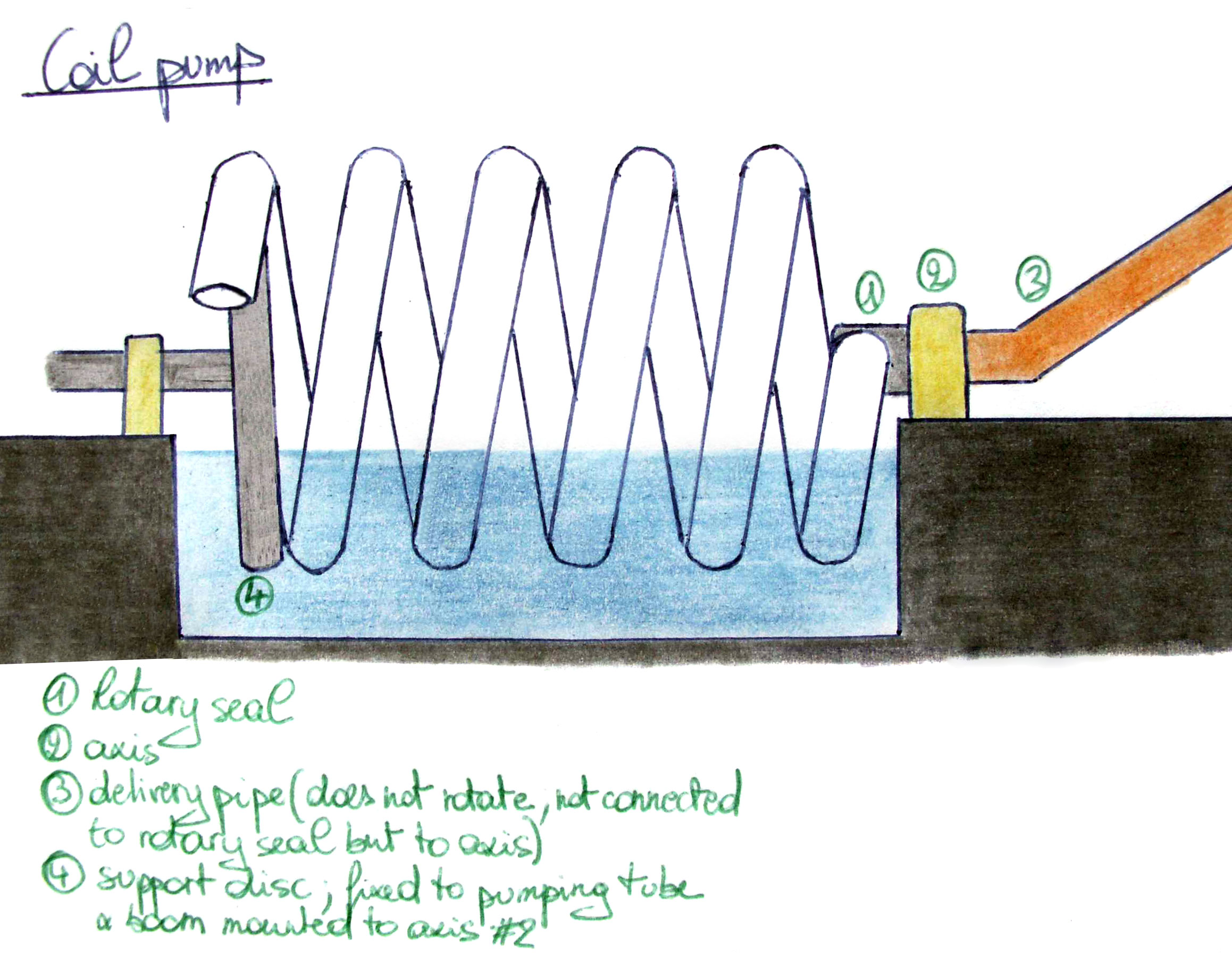 A hand drawn schematic of a coil pump. The schematic was based on this image from that the original file contained a barrel which is removed in this image to reduce water friction.